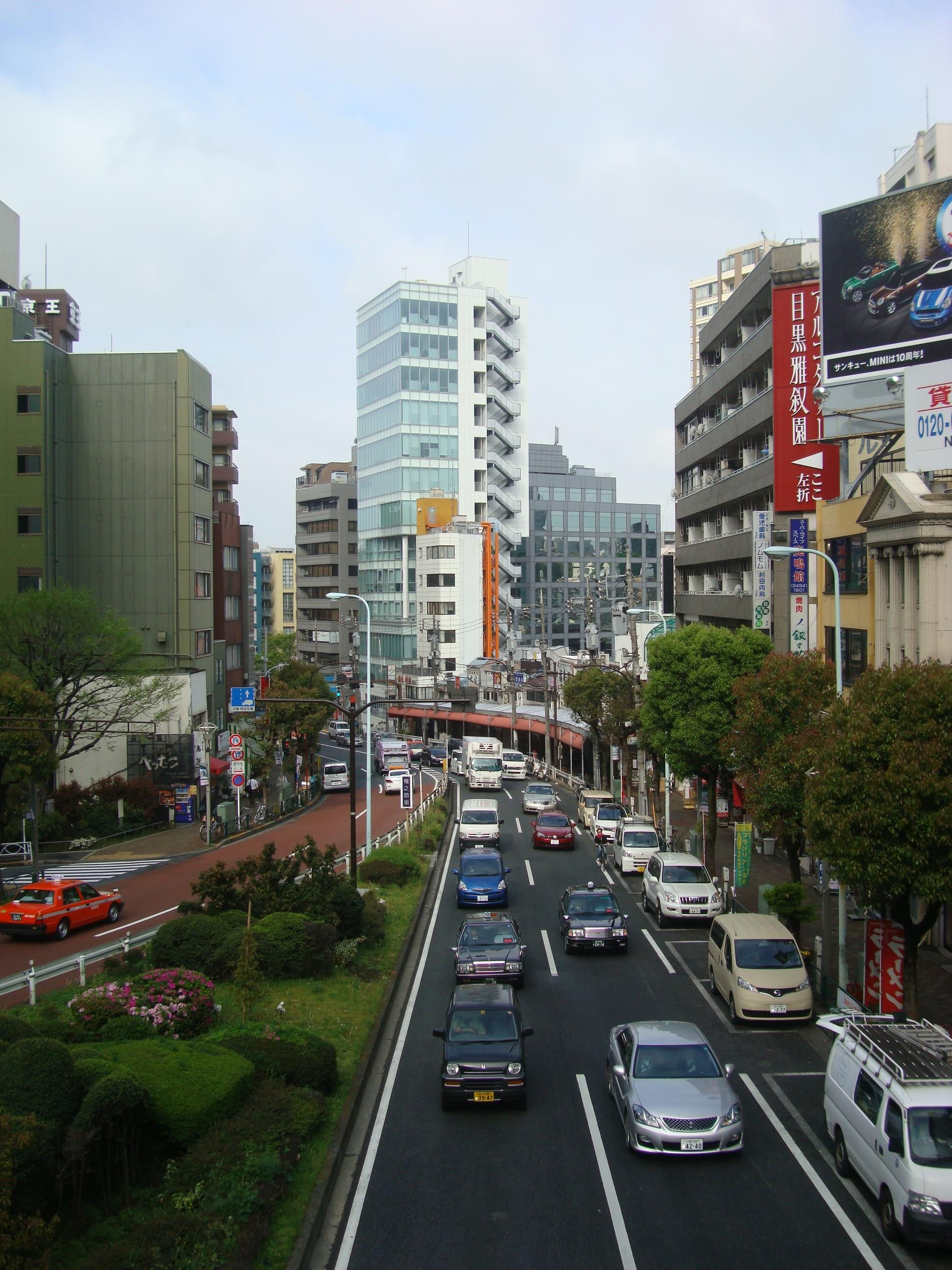 Gonnosuke-zaka street, Meguro city, Tokyo (Meguro-dori Avenue)